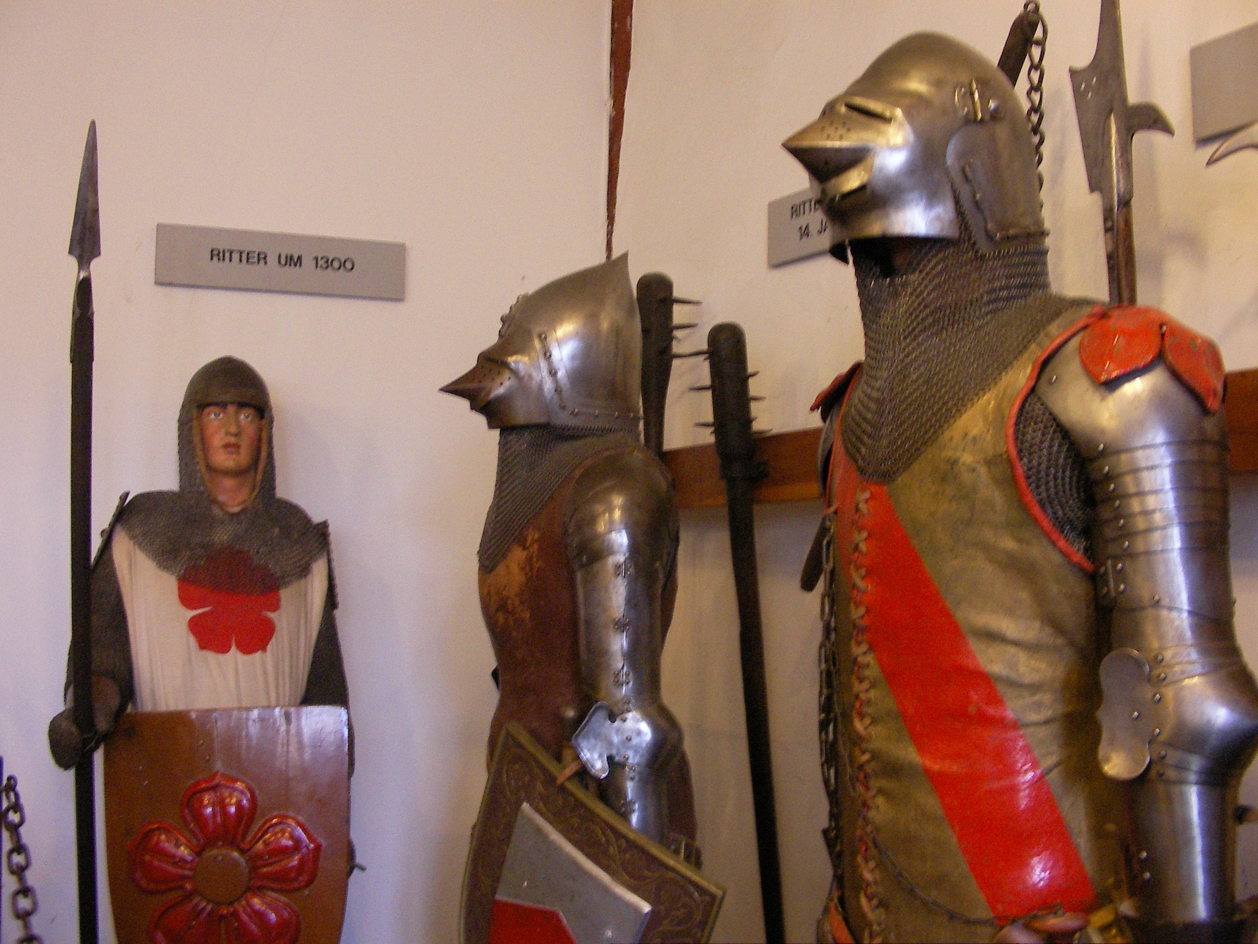 Marksburg/Rhine Valley, medieval armours, Germany